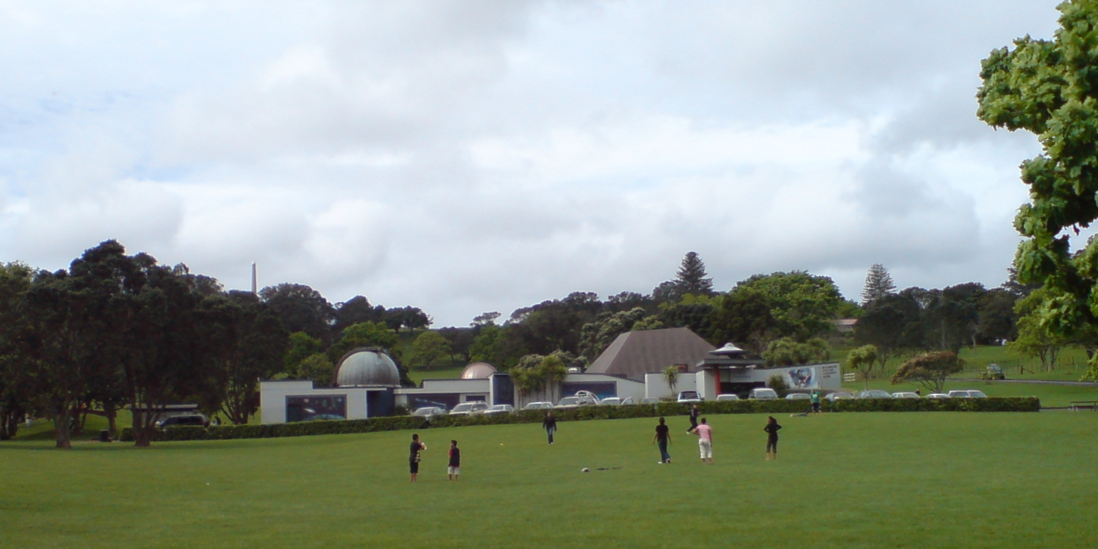 The Stardome Observatory in Auckland City, New Zealand.